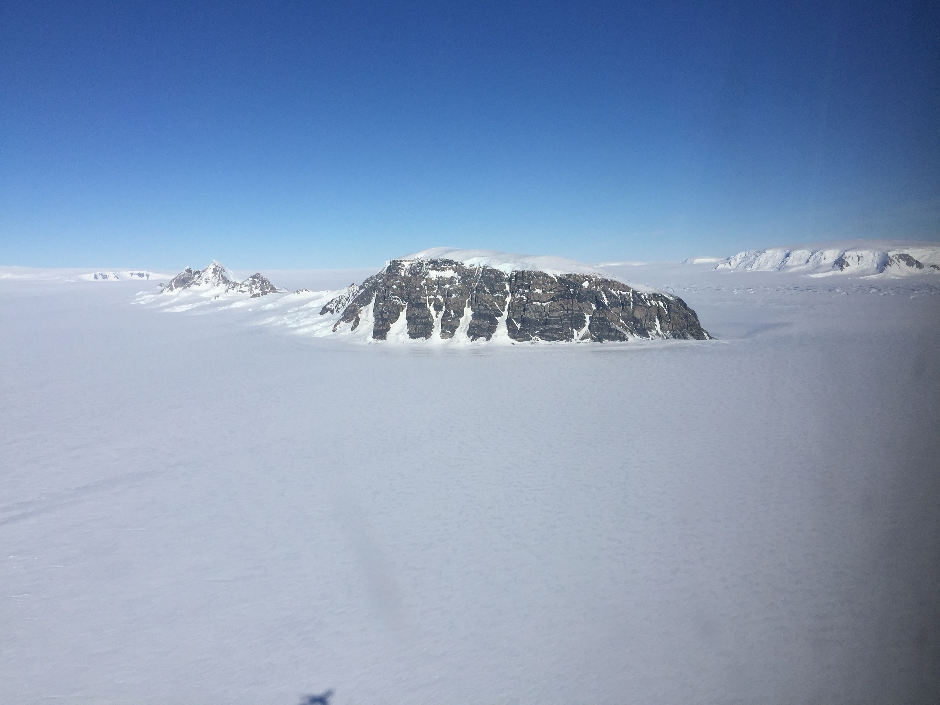 Mt. Prince on the western edge of the Getz Ice Shelf (NASA/Nathan Kurtz).